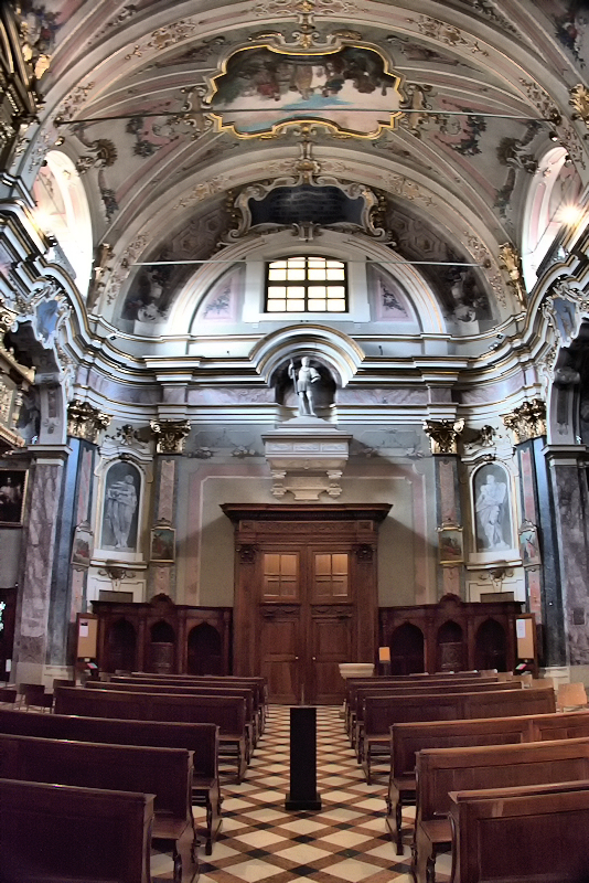 Internal facade of "Santissima Trinità" church in Crema, Italy